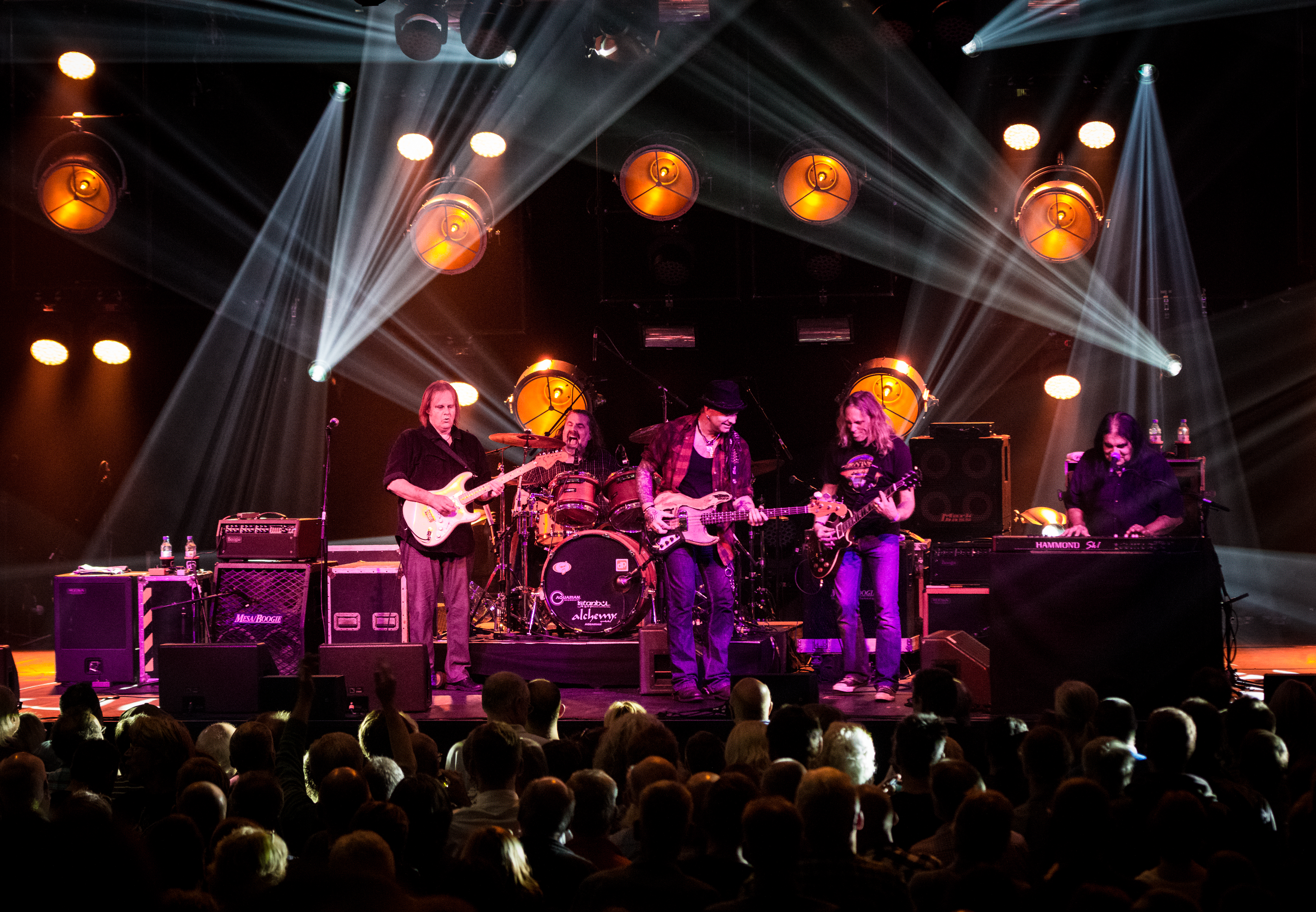 Walter Trout - Leverkusener Jazztage 2016